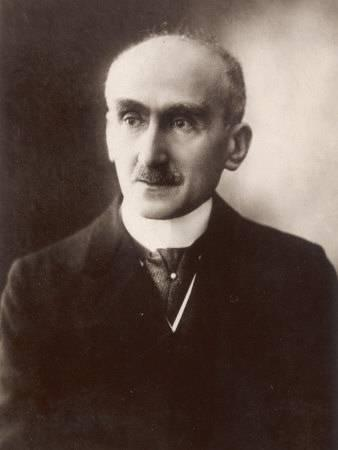 Henri Manuel (24 April 1874, Paris – 11 September 1947, Neuilly-sur-Seine) was a Parisian photographer who served as the official photographer of the French government from 1914 to 1944.